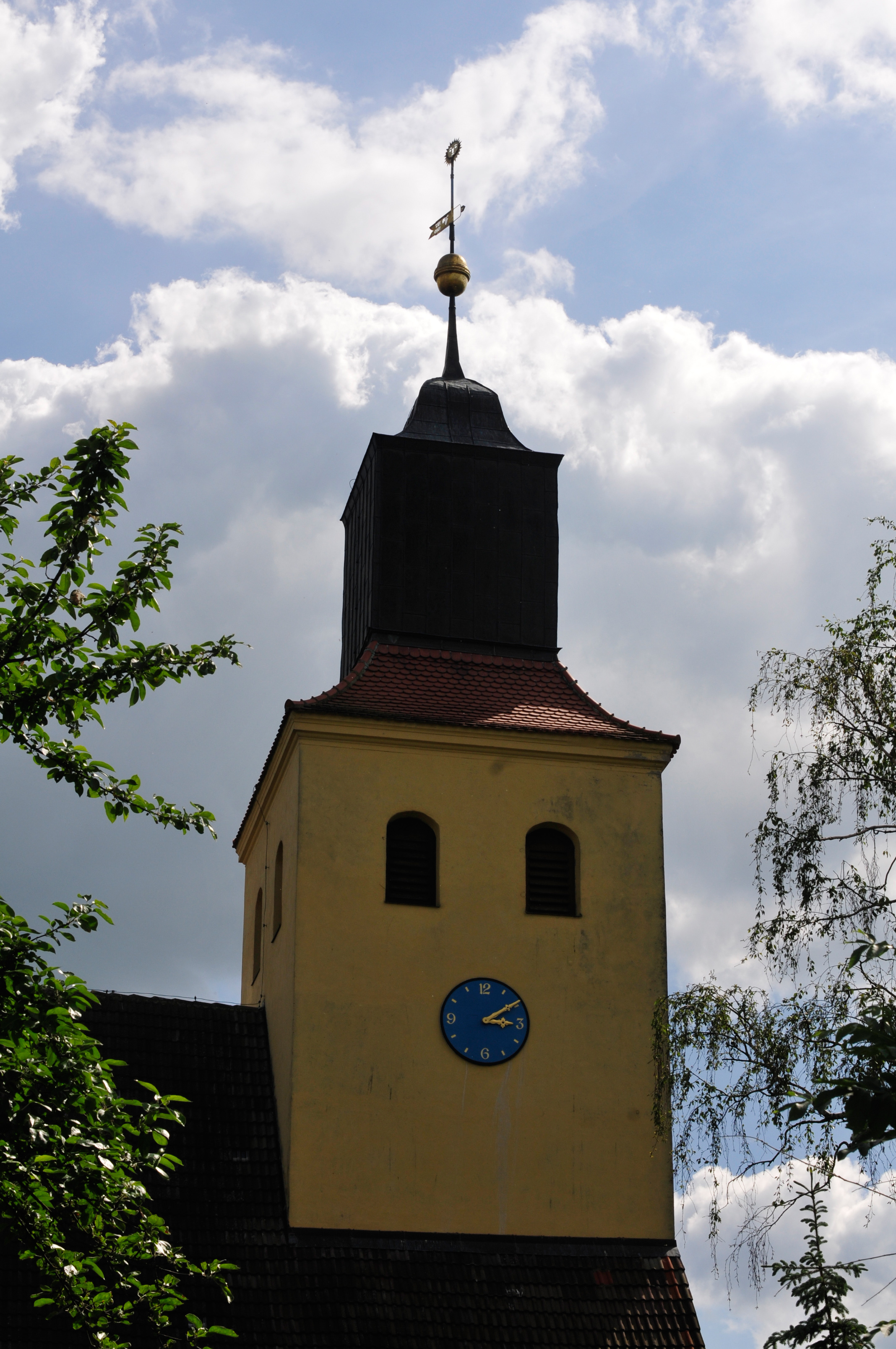 village Biesenbrow in Germany Kirche; Baudenkmal